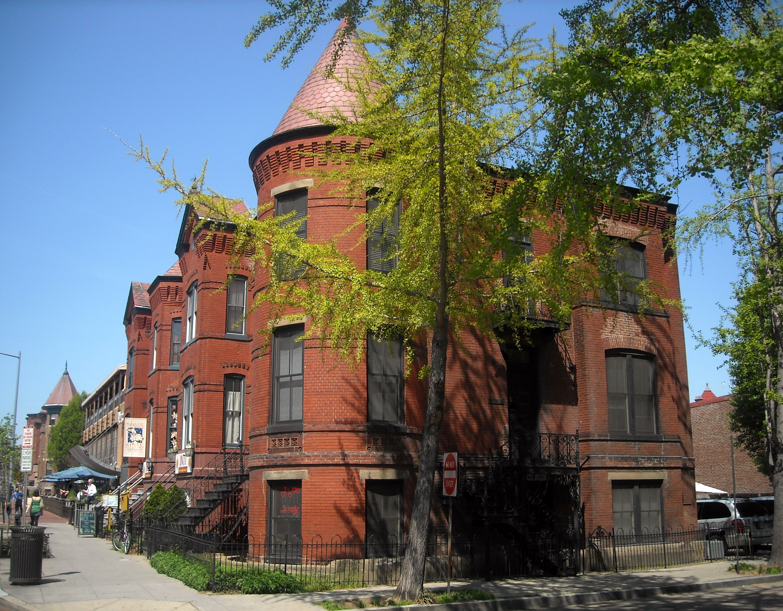 Commercial buildings located on the 1800 block of 18th Street, N.W. (as viewed from the intersection of 18th and Swann Streets, facing north), in the Dupont Circle neighborhood of Washington, D.C. Built in the 1890s, the converted, private residences are contributing properties to the Strivers' Section Historic District, listed on the National Register of Historic Places in 1985.